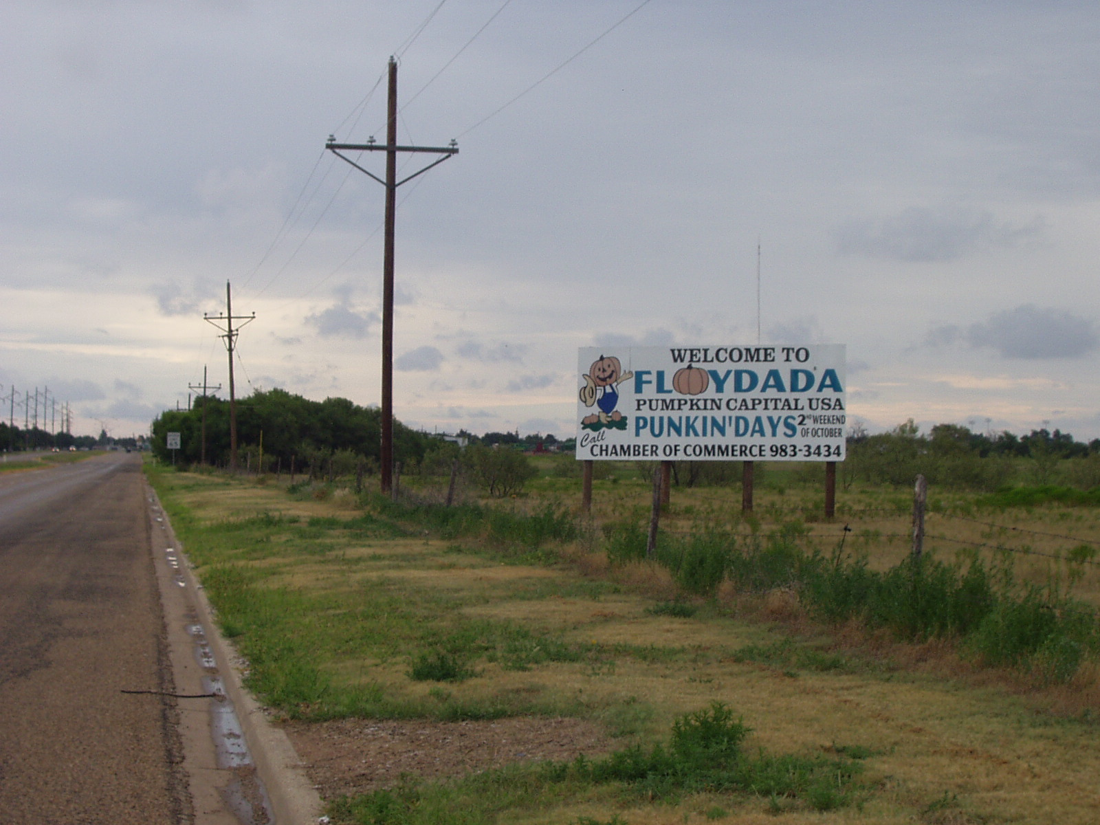 Welcome sign, Floydada, TX - taken by user:pschemp